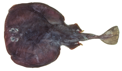 Longtail torpedo ray (Tetronarce tokionis)